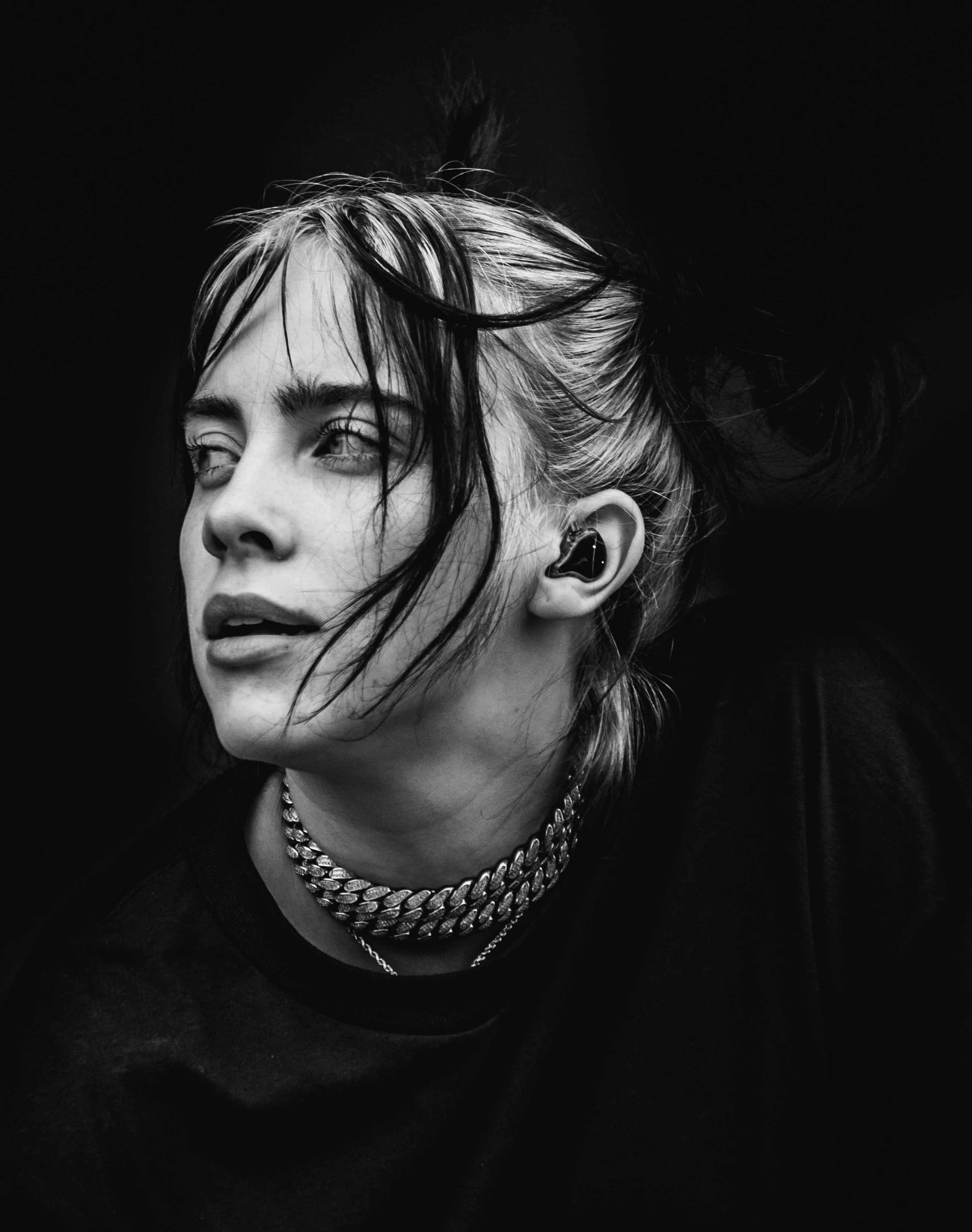 Billie Eilish at 2019 Pukkelpop Music Festival which take place in Kiewit, Hasselt, Belgium.